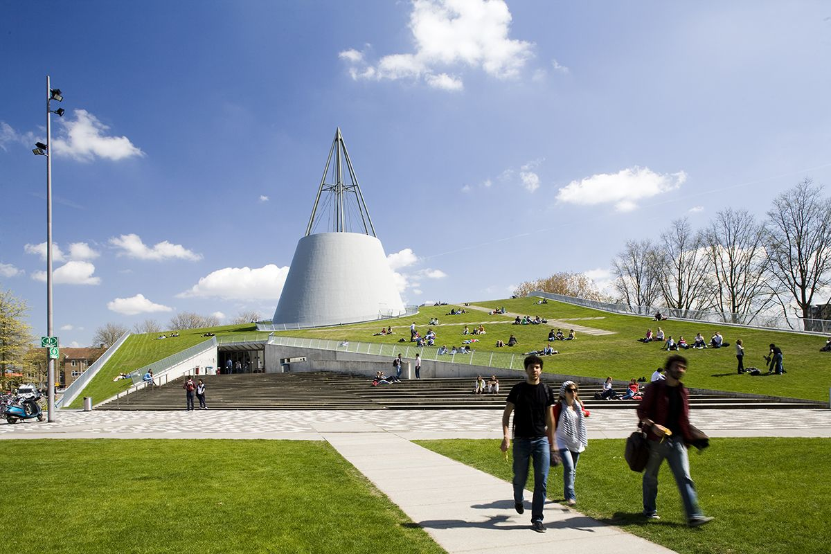 Public space